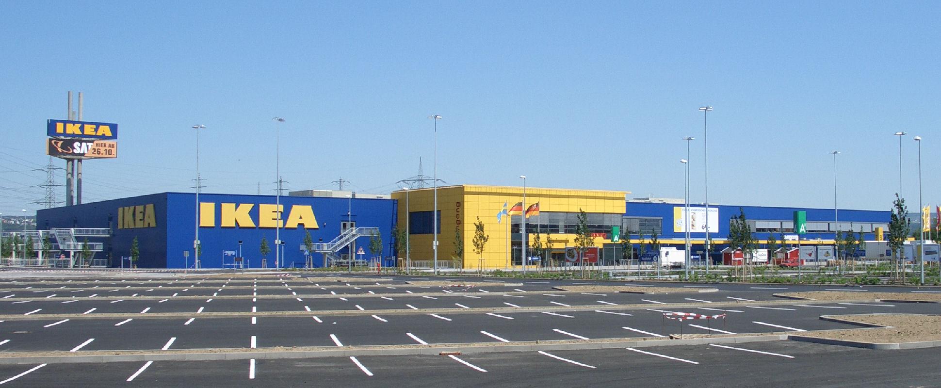 IKEA in Koblenz